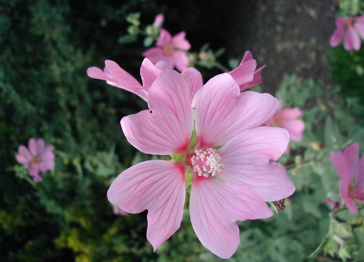 Lavatera × clementii 'Rosea', flower. Taken at Oxford, England